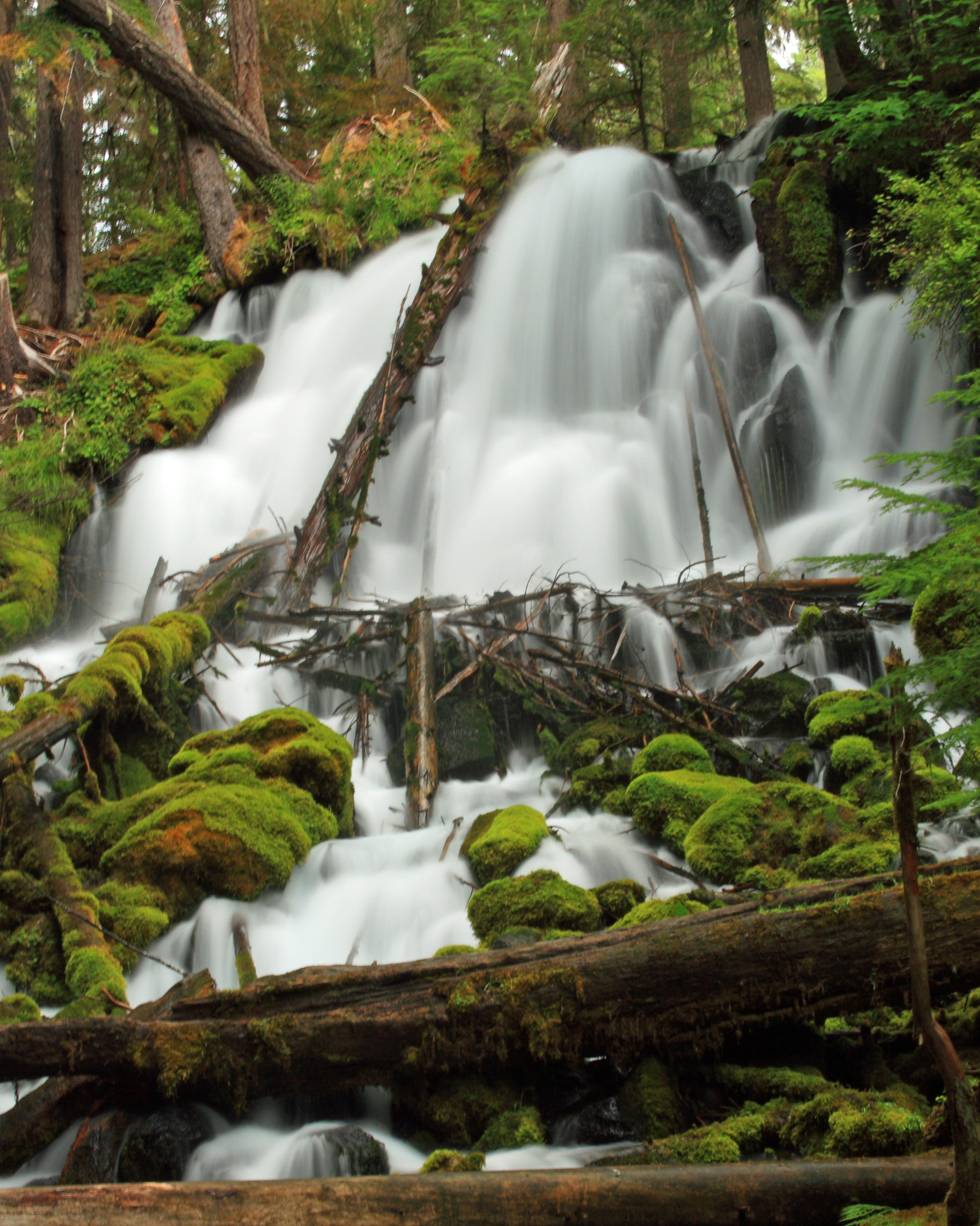 Two-second exposure of Clearwater Falls on the Clearwater River, a tributary of the Umpqua River, in Douglas County, Oregon, United States